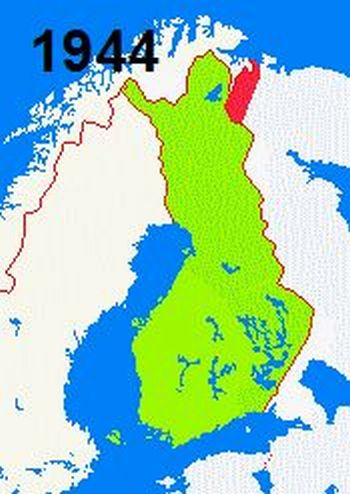 Border changes in Finland 1944